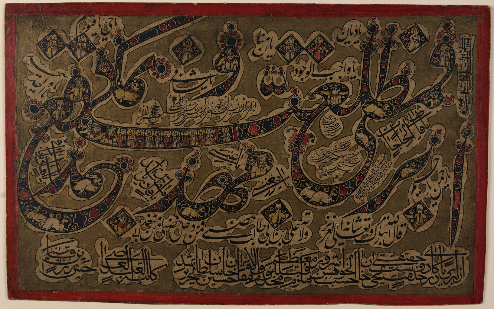 This calligraphic panel executed in black and red on a white ground decorated in gold contains a number of prayers (du'a's) directed to God, the Prophet Muhammad, and his son-in-law 'Ali. The letters of the larger words are executed in nasta'liq script and are filled with decorative motifs, animals, and human figures. This style of script, filled with various motifs, is called gulzar, which literally means 'rose garden' or 'full of flowers.' It usually is applied to the interior of inscriptions executed in nasta'liq, such as this one. The gulzar script was popular in Iran during the late 18th and 19th centuries. This piece, written by the calligrapher Husayn Zarrin Qalam ('Husayn of the Golden Pen') for Husayn Khan Sultan in 1797-98, dates from the early period of Qajar rule in Iran (1785-1925). All around the larger letters composed in the nasta'liq style and filled with motifs are smaller Shi'i prayers executed in a number of different scripts. These include thuluth, naskh, nasta'liq, shikasta, tawqi', and kufi. One inscription is even written in reverse, as if executed with the help of a mirror. The sheer variety of these scripts, along with the larger central gulzar composition, was intended to showcase Husayn Zarrin Qalam's mastery of the major calligraphic scripts. Arabic calligraphy; Illuminations; Islamic calligraphy; Islamic manuscripts; Prayers